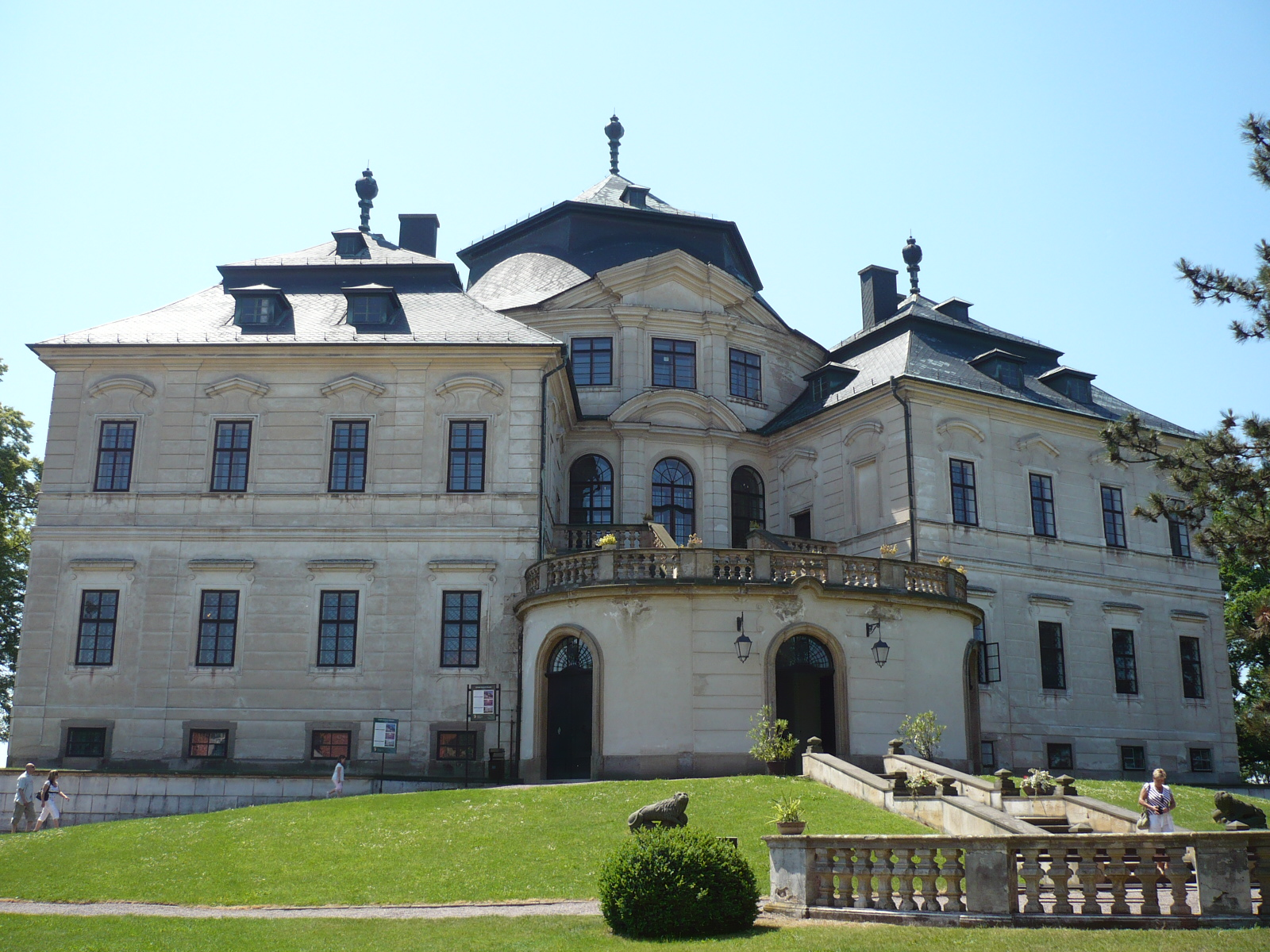 Kastle Karlova Koruna v Chlumci nad Cidlinou in the Czech Republic